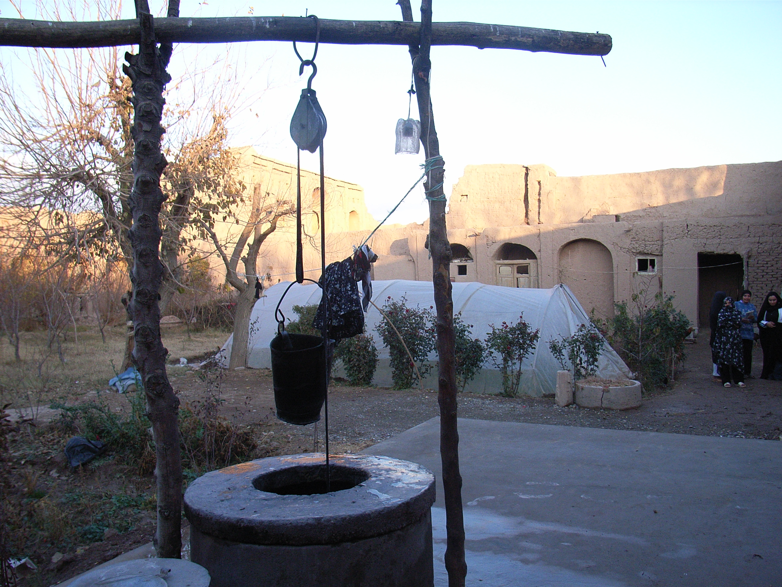 A traditional housing compound showing a shallow water supply well in the foreground. The toilet is located behind the white greenhouse. The close distance between shallow wells and toilets is one reason for contamination of the water. (Photo: Nov. 2009, N. Khawaja, Navin Well-Field Area, Herat)